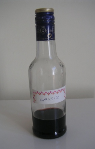 Occitan homemade cassis.